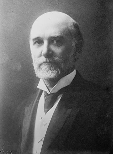 Henry Allen Cooper (1850 - 1931), U.S. Representative from Wisconsin